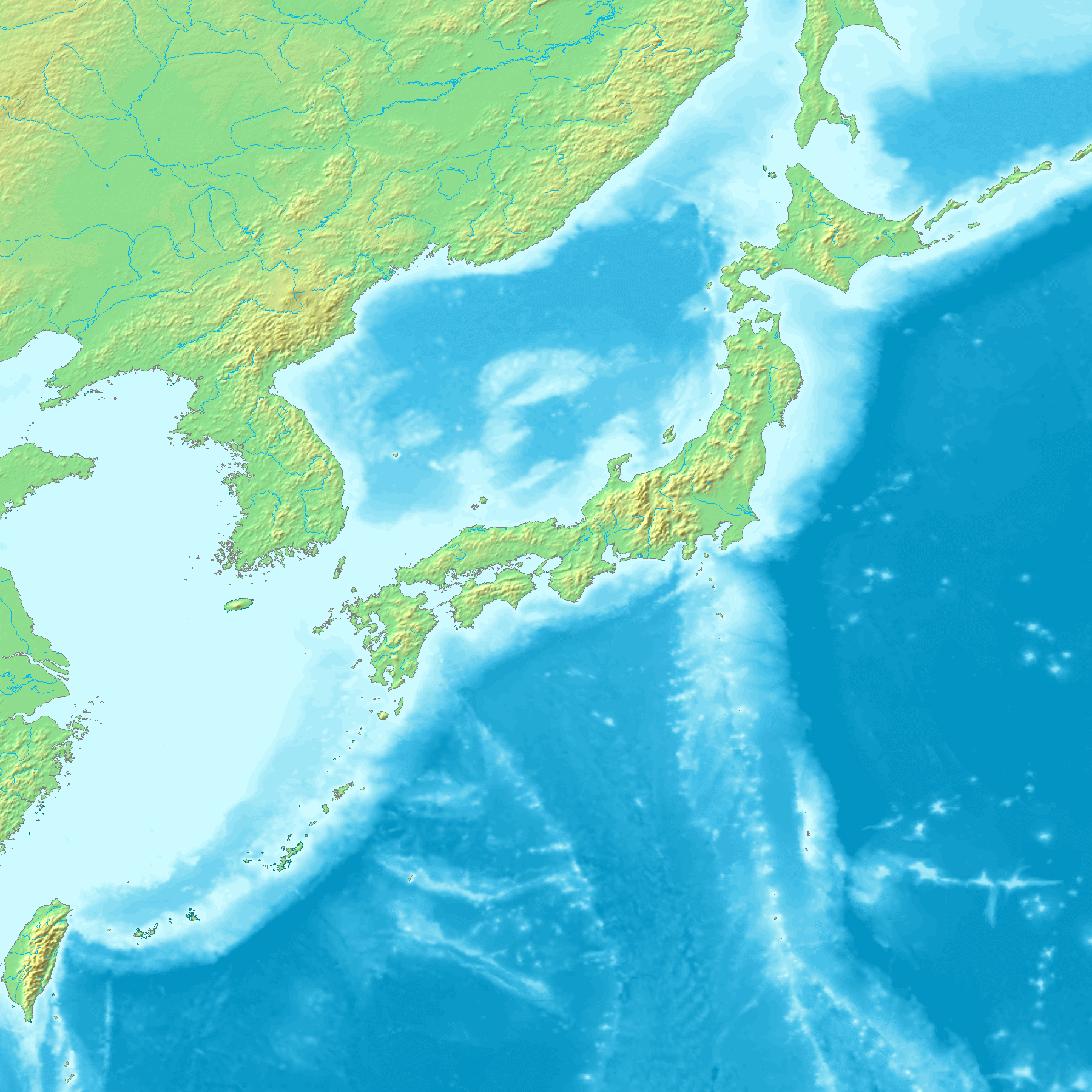 Topographic N20.0-50.0, E120.0-150.0